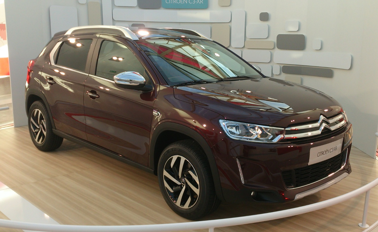 Citroën C3-XR photographed at C_42 Citroën Store on Champs-Élysées in Paris, France.